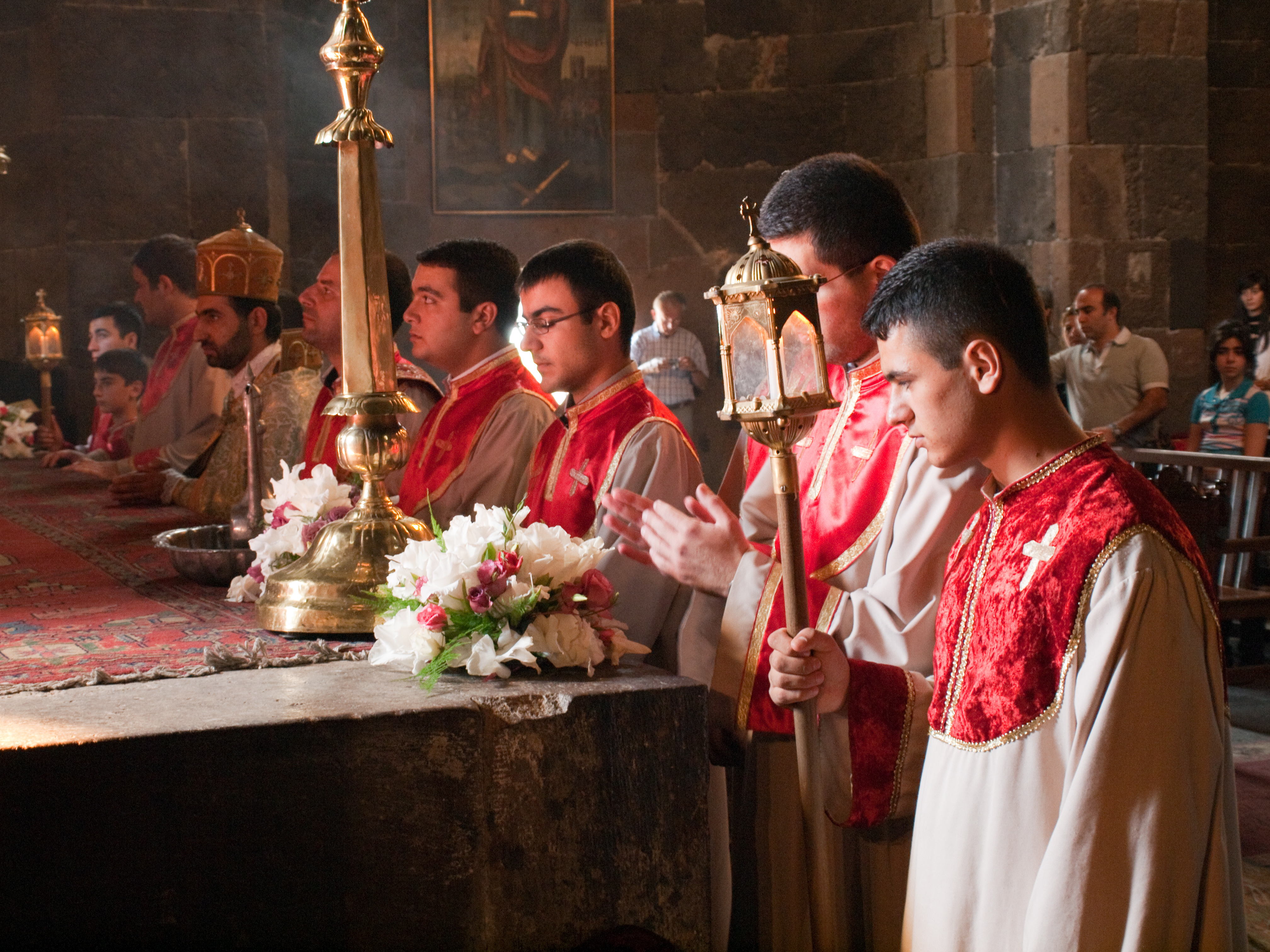 Armenia - Day 2 - 19 September 2010. A very moving church service.